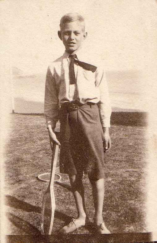 Francis Hugh Vowles (born Rugby, Warwickshire 18 September 1911 died Gloucester 2 May 1990) attended Cheltenham College, obtained a Bachelor of Laws degree from the University of London External System in 1937, and trained as a lawyer under his uncle Henry Hayes Vowles (junior) of H.H.Vowles and Company, Gloucester. FH Vowles married Elizabeth Langhorne BA (1911–1999). In 1943, Francis Vowles trained to become a Pilot Officer with the RAF at the 13th Initial Training Wing (C Flight, No. 3 Squadron). From 17–31 September 1943, he was at the 4 EFTS Brough Aerodrome, Brough, Yorkshire. Between 31 September 1943 and 27 November 1943, he travelled to Canada. There he was taught trainee pilots to fly the de Havilland Tiger Moth. He was based at the 35 EFTS at Neepawa from 27 September 1943 to 11 March 1944. From 11 March 1944 to 20 October 1944, he was based at the 17 Service Flying Training School, Souris, Manitoba. In Souris, he flew Anson II planes. From 9 April 1945 to 8 August 1945, he was based at the No 1333 Transport Support Conversion Unit, Leicester East. Here he flew Oxford and Dakota planes and undertook "radar flights".Francis Vowles went on to become a partner in Vowles, Jessop and Keen of Lorraine House, 45 Park Road, Gloucester, the house in which his Pearce grandparents had lived. He was Clerk to County Justices (Gloucester division). and a member of the Royal Air Force Association (Gloucester branch). As well as a full-time solicitor, he was also honorary legal adviser to the Gloucester Association of parish and town councils from 1936 to 1976. He and his wife lived at the Old Rectory, Whaddon, Gloucester. Before his death, they built and moved into a new, adjacent house ("New Hasbrook") which retained the original pond.